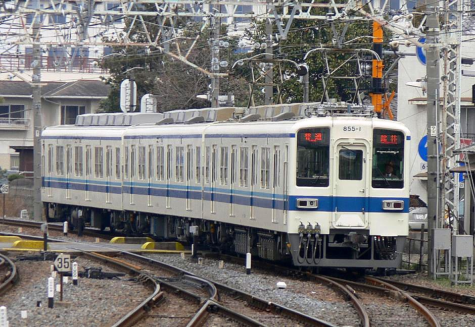 Tobu Railway Type 850(855-1) Train(Japan). It takes a picture from the platform at Tatebayashi Station of Toubu Isesaki Line. 東武850系電車(855-1)。 東武伊勢崎線館林駅にて、ホームより撮影。